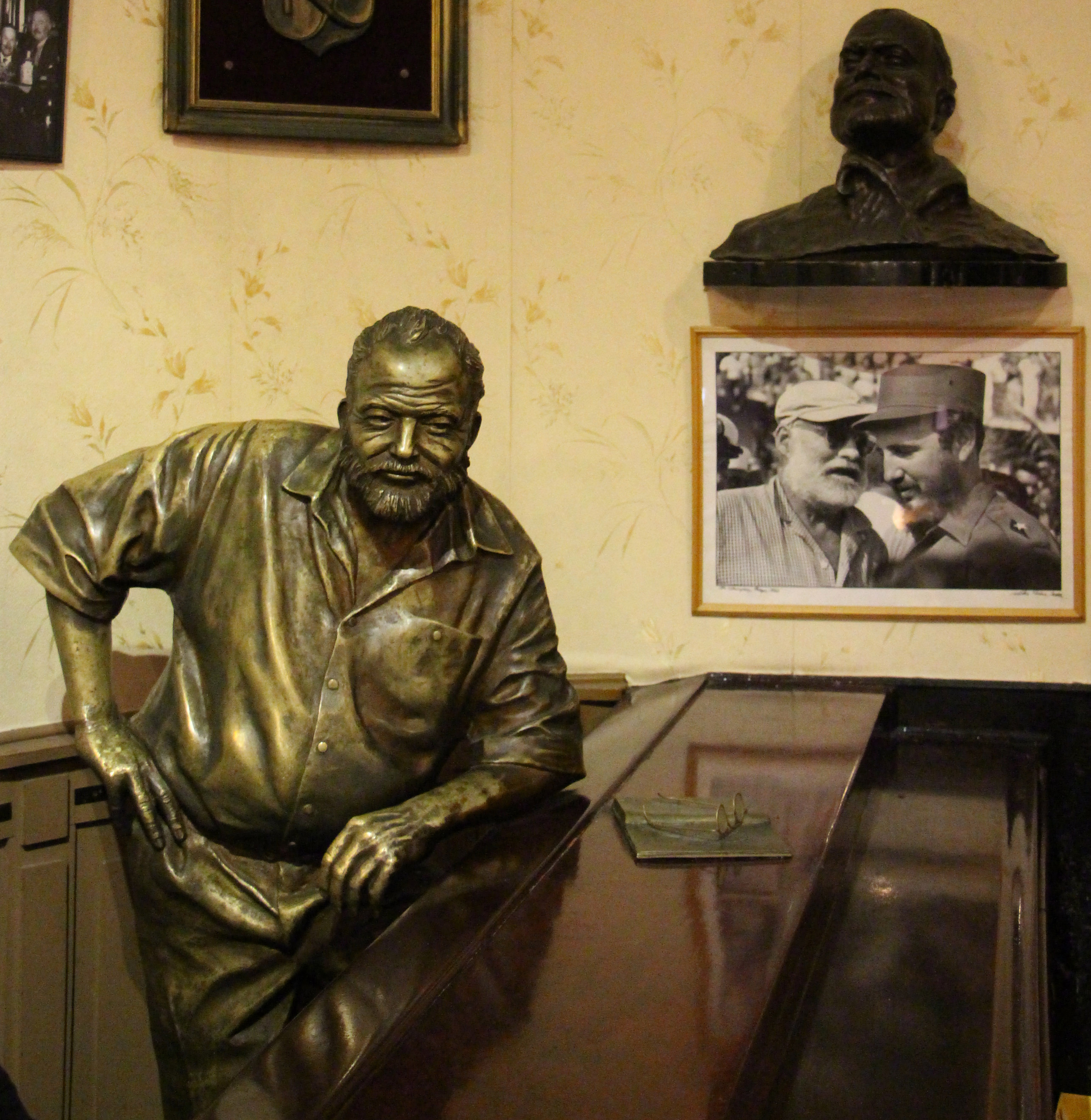 Image from the interior of the Floridita bar, in Havana, Cuba. Statue of Ernest Hemingway by Cuban artist José Villa Soberó.